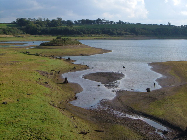 Roadford Reservoir. The reservoir seen from the bridge across the River Wolf as it enters the lake. On the left is the "island" visible in 247245, and to this side of it are the remains of a submerged field boundary. The reservoir level was at 50% when this was taken - (link supplied by Martin Bodman).